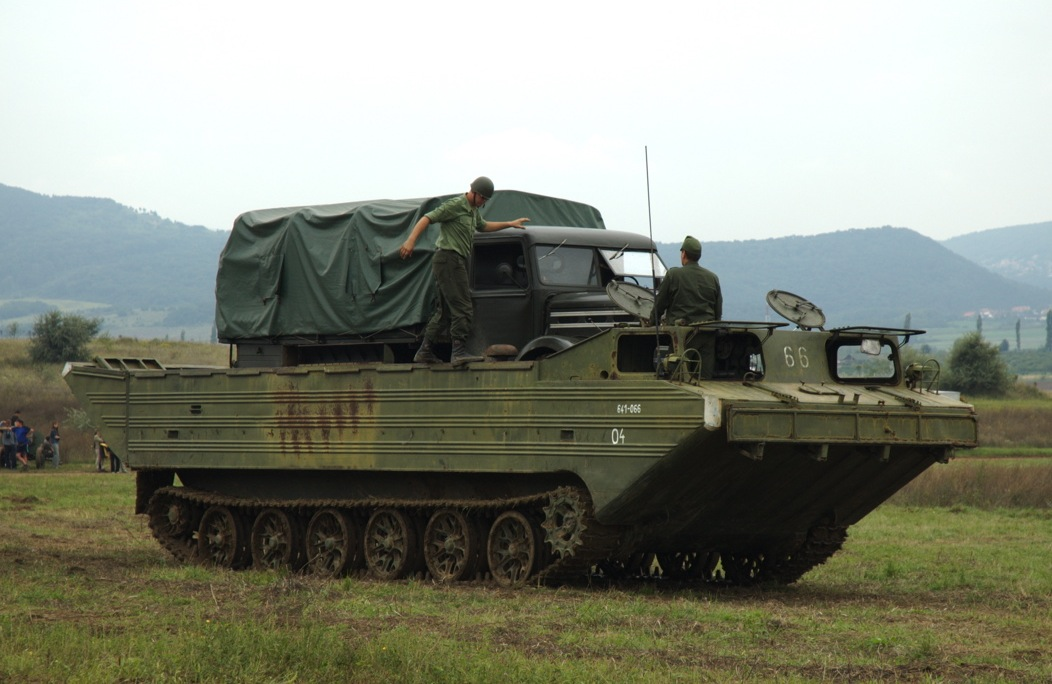 PTS Soviet amphibious vehicle carrying a Csepel D-344 truck (Hungary)